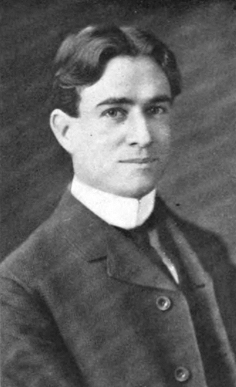 Burton Egbert Stevenson.